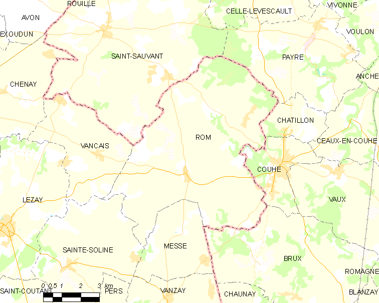 Map of French municipality Rom